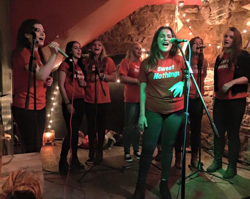 University of Exeter's contempoary all female a cappella group Sweet Nothings